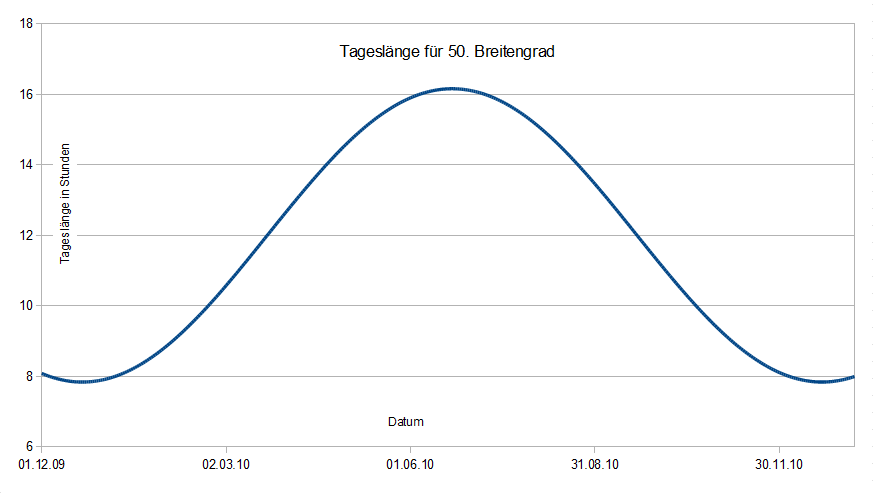 Length of daylight in Frankfurt in the course of a year.